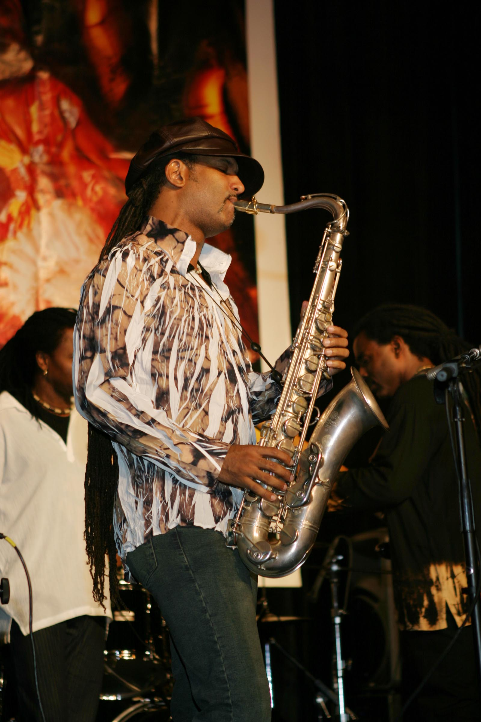 Picture of Arturo Tappin at the Barbados Cultural Festival in Atlanta in 2003.